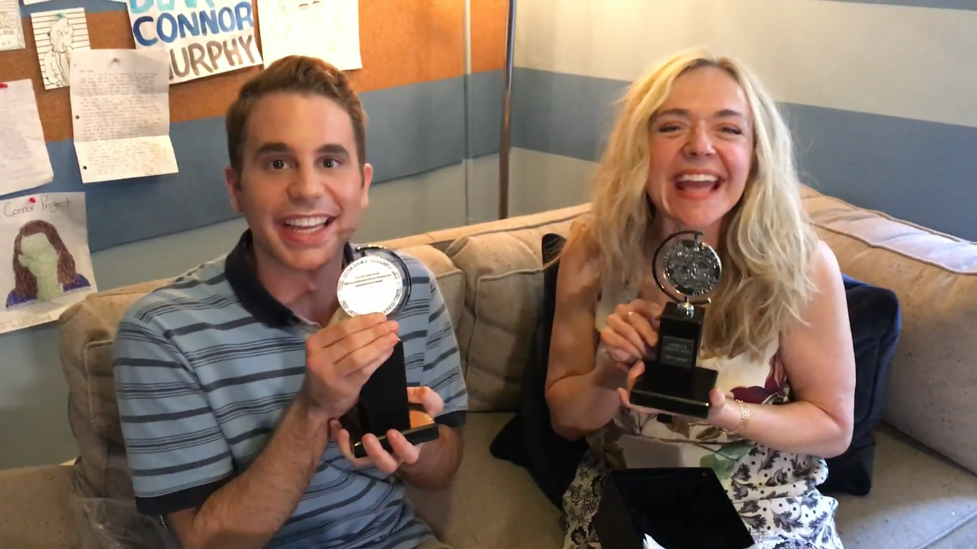 The 71st Tony Award winner for Best Performance by an Actor in a Leading Role in a Musical, Ben Platt, and Tony Award winner for Best Performance by an Actress in a Featured Role in a Musical, Rachel Bay Jones, open their Tony Awards for the first time after they have been engraved with their names and category.